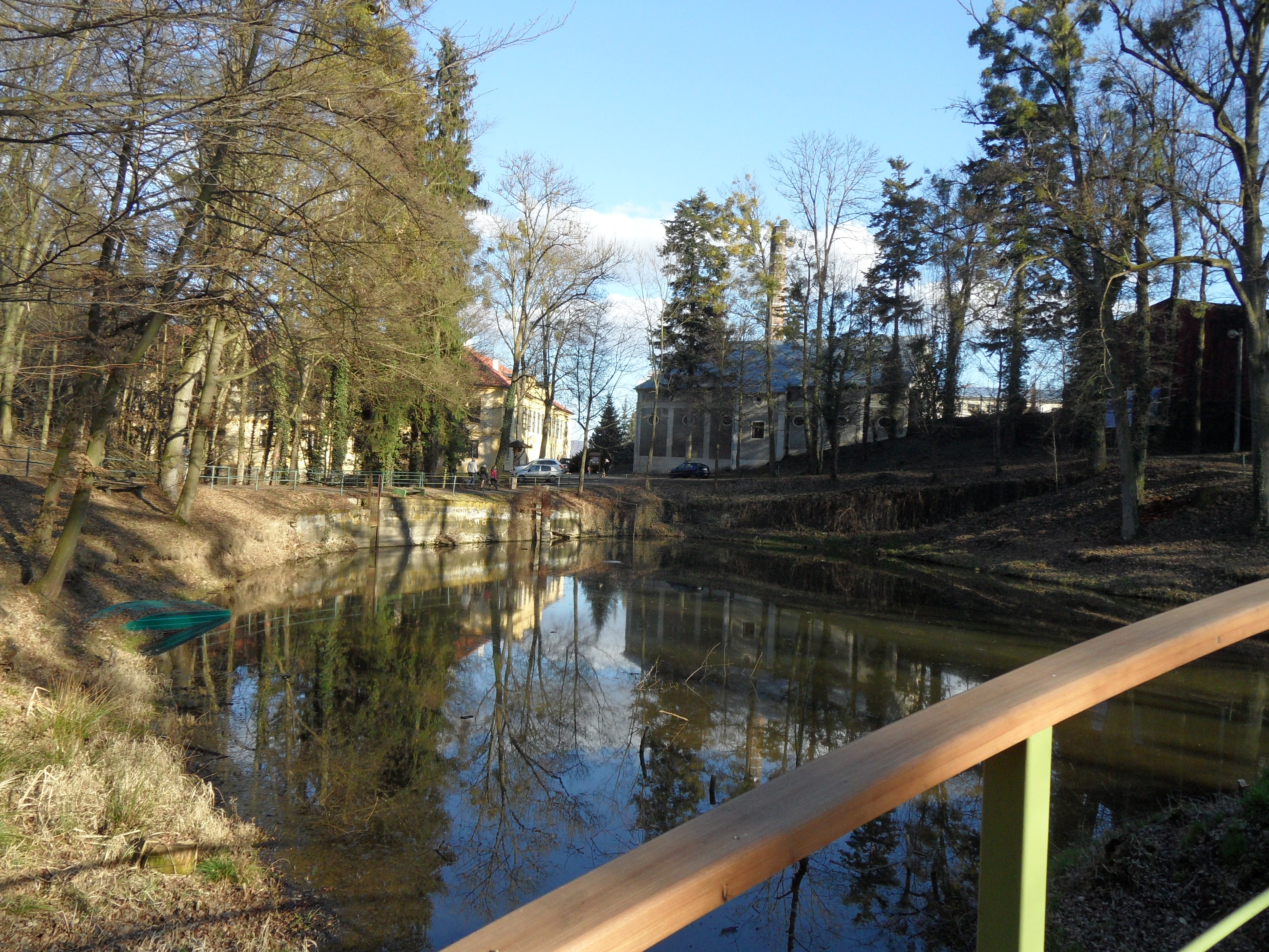 Hostačov (Skryje) F. Parkland, View from Small Bridge to Chateau Hostačov, Havlíčkův Brod District, the Czech Republic.